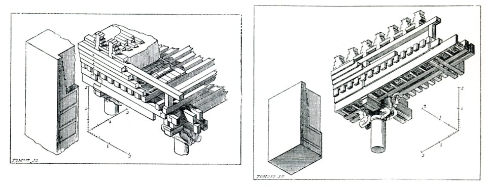 Persepolis, Roof reconstruction by Chipiez